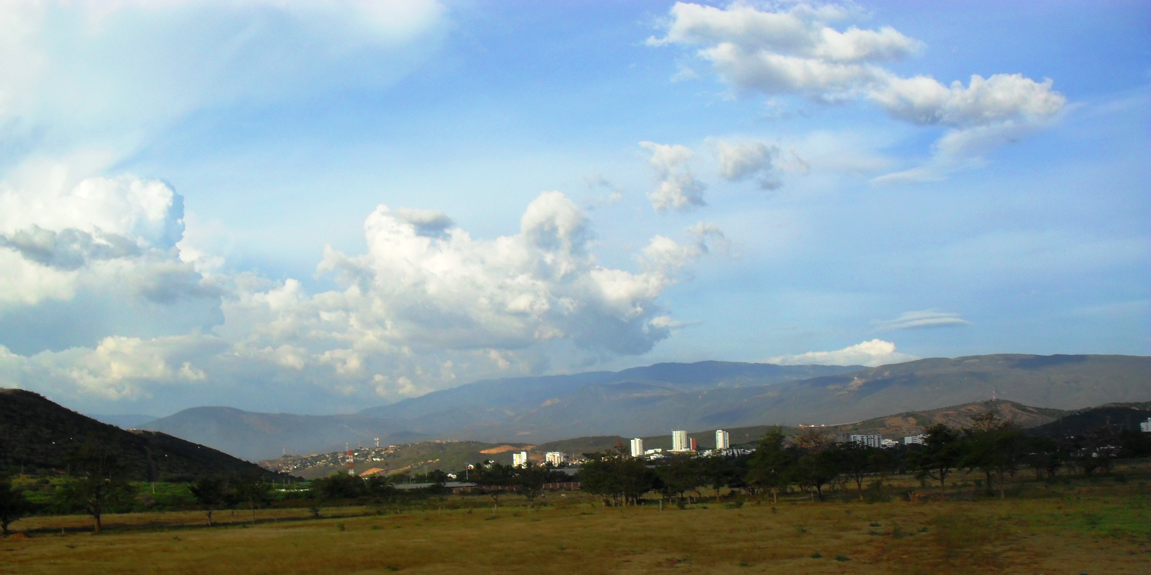 southern city of Cúcuta